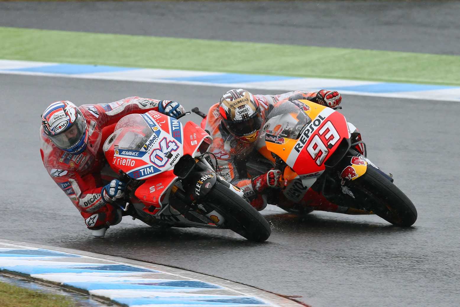 Andrea Dovizioso, riding his Factory Ducati, battling with the Repsol Honda of Marc Márquez at the 2017 Japanese Grand Prix.